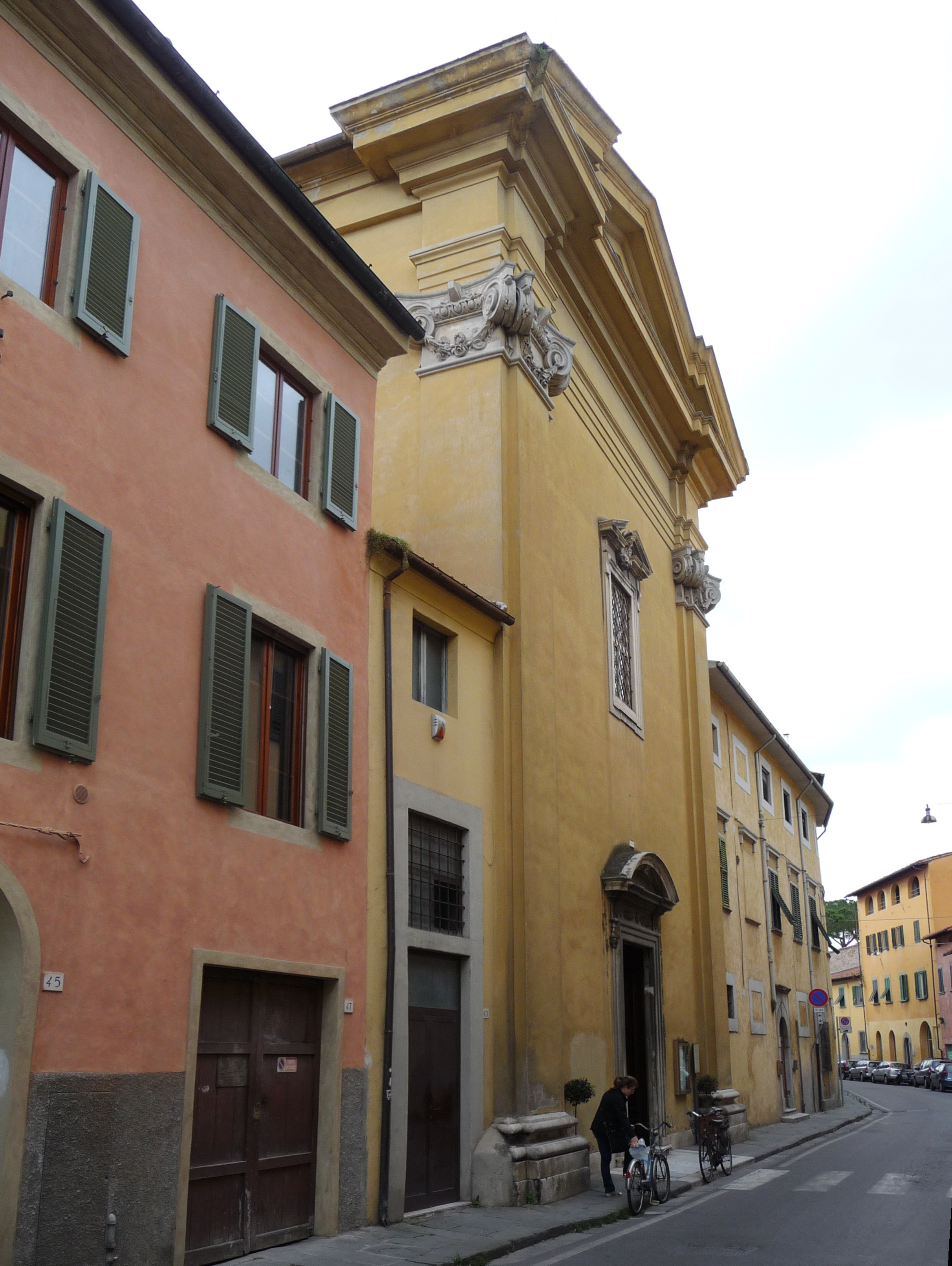 Church "Santa Marta", Pisa, Italy